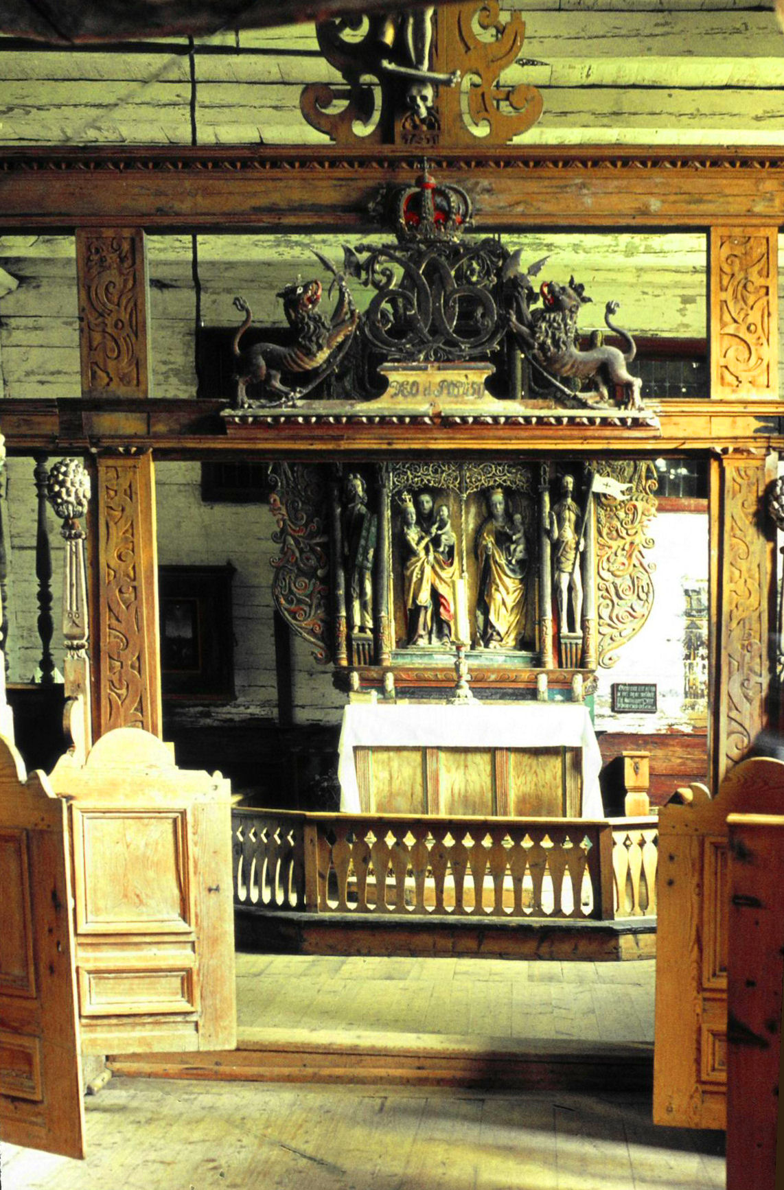 Altarpiece, Kvernes stave church, Averøy municipality, Møre og Romsdal county, Norway